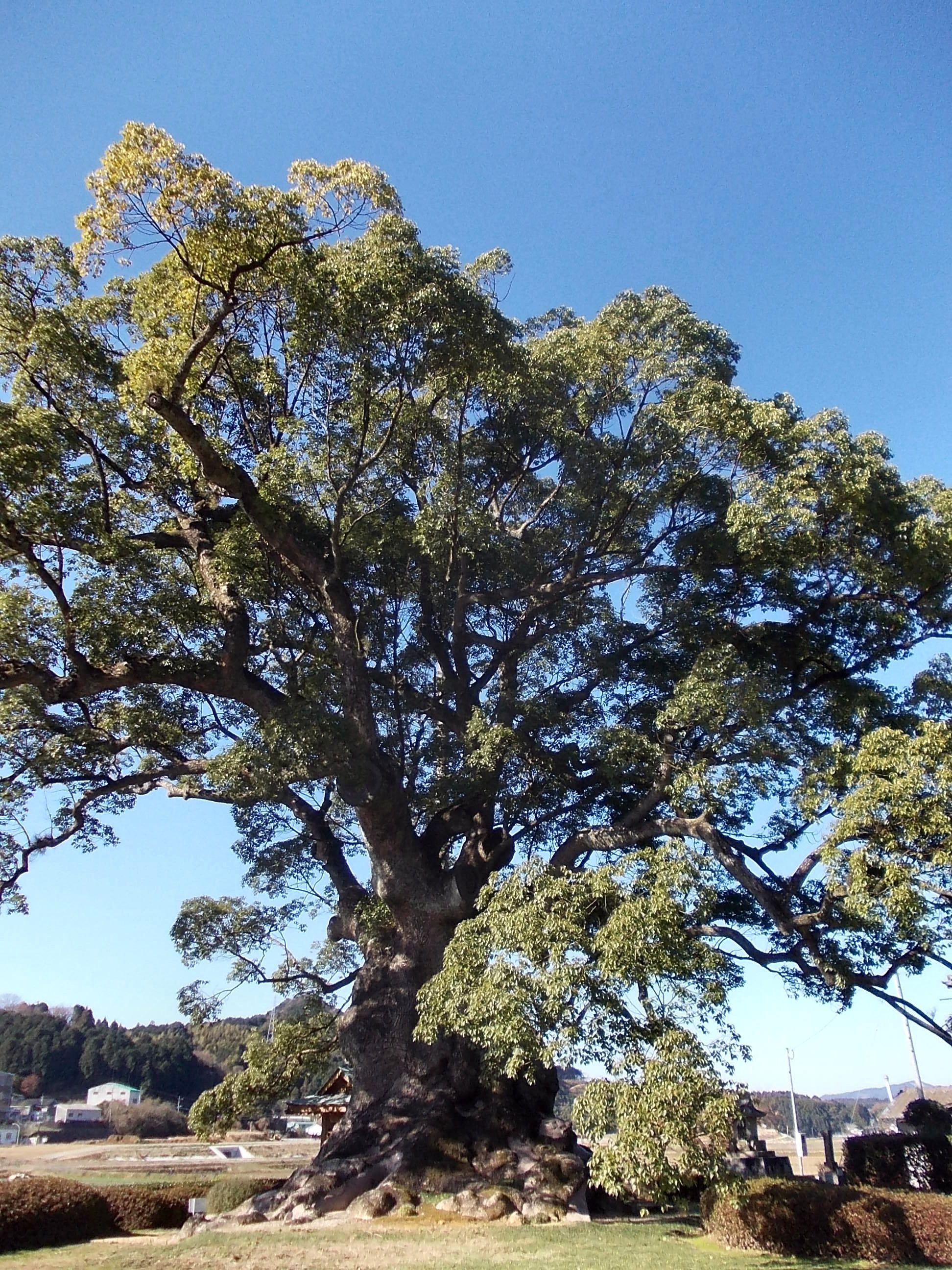 Kawako camphor tree, Takeo, Saga, Japan